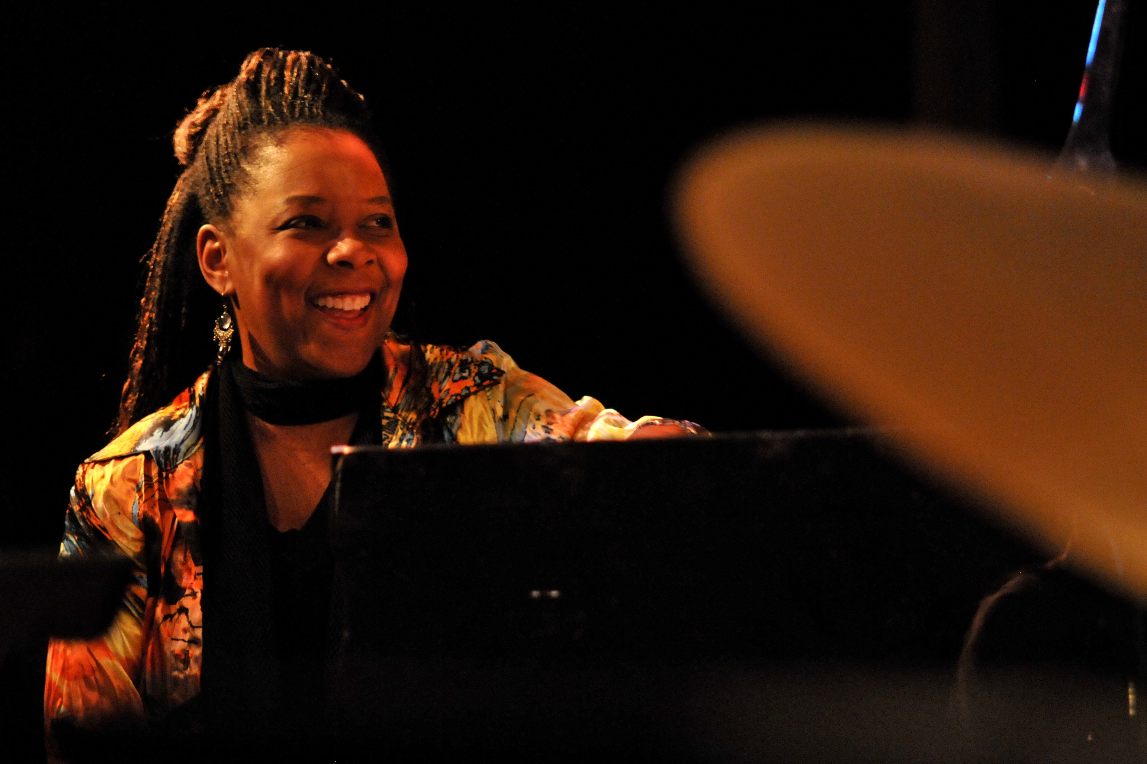 Patrice Rushen-- I've been a fan of patrice for many, many years.. so it was a real treat to finally get to hear her play some straight-ahead jazz at Scullers. She blew us away with her playing, which was simply amazing!